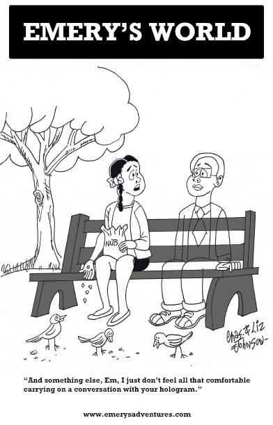 Emery's Adventures Cartoon